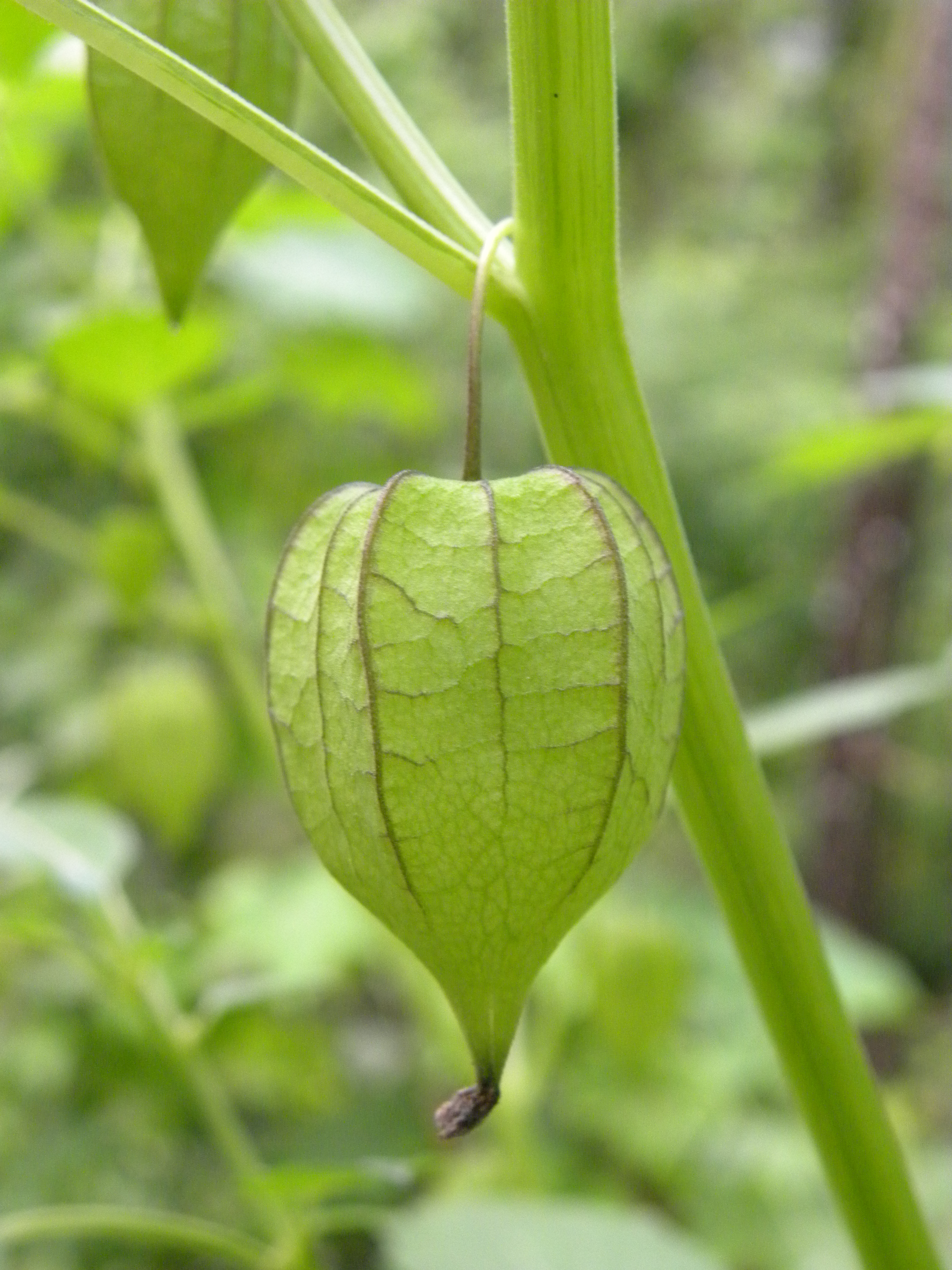 A Little Gooseberry (Wikipedia) fruit from Kerala.